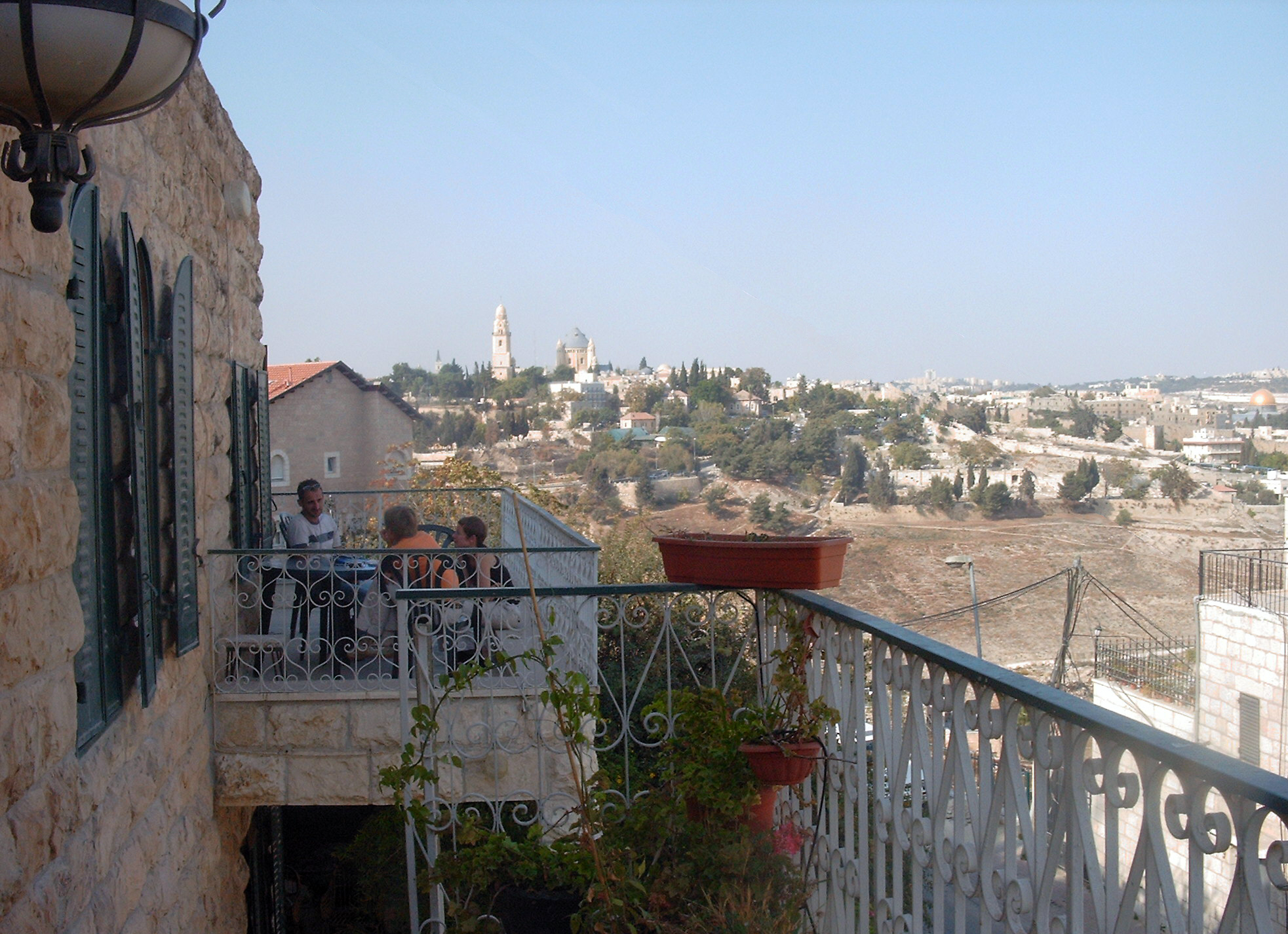 Willy Brandt Center Jerusalem Center for International Encounters 22, Ein Rogel St. Jerusalem (Abu Tor)